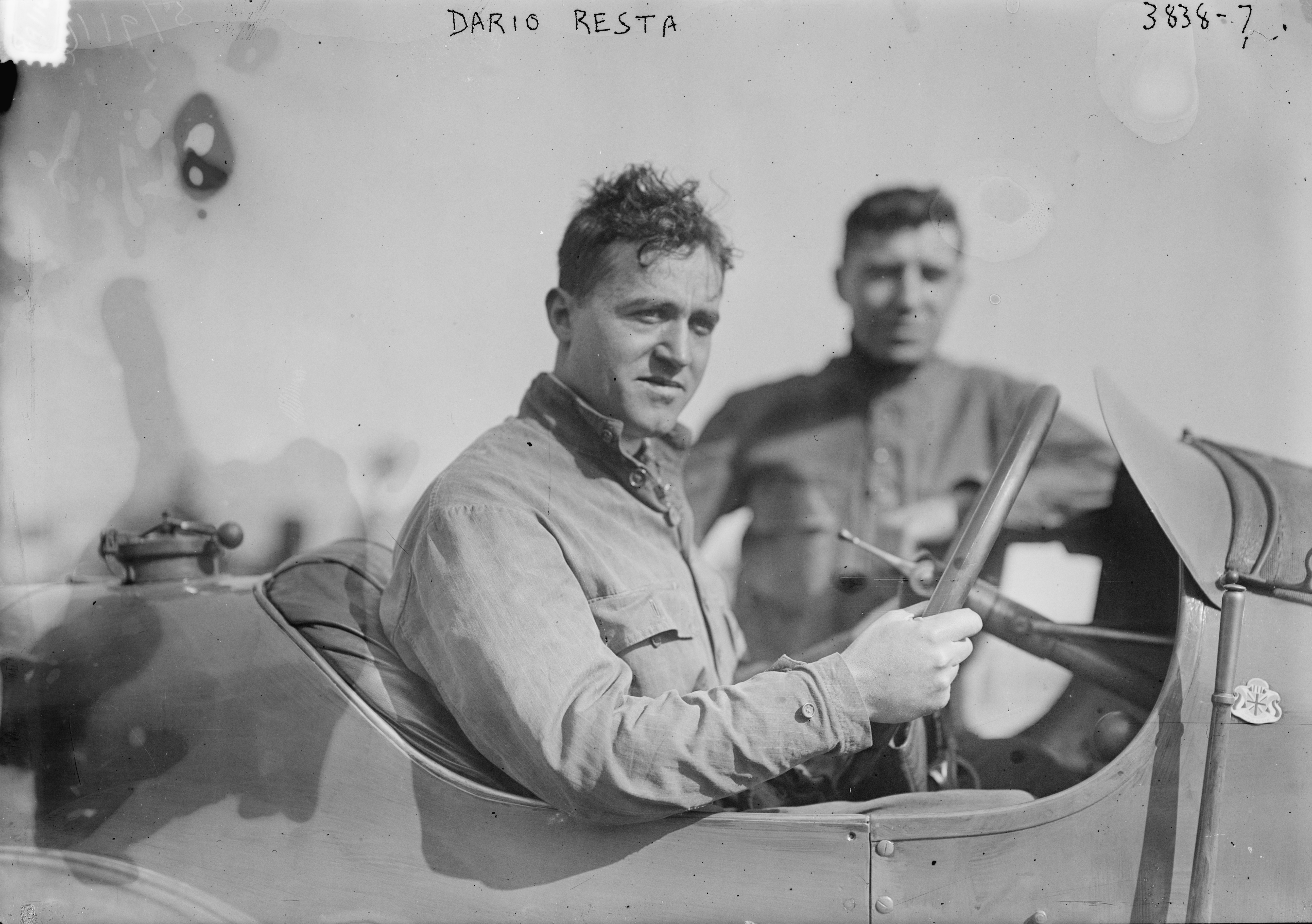 Dario Resta, Italian-British race car driver of the 1900s-1920s